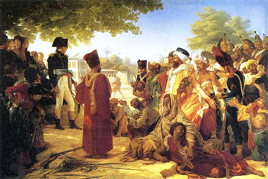 The uprising in Cairo. Napoleon extends amnesty to the leaders of the revolt during his campaign in Egypt in 1798.